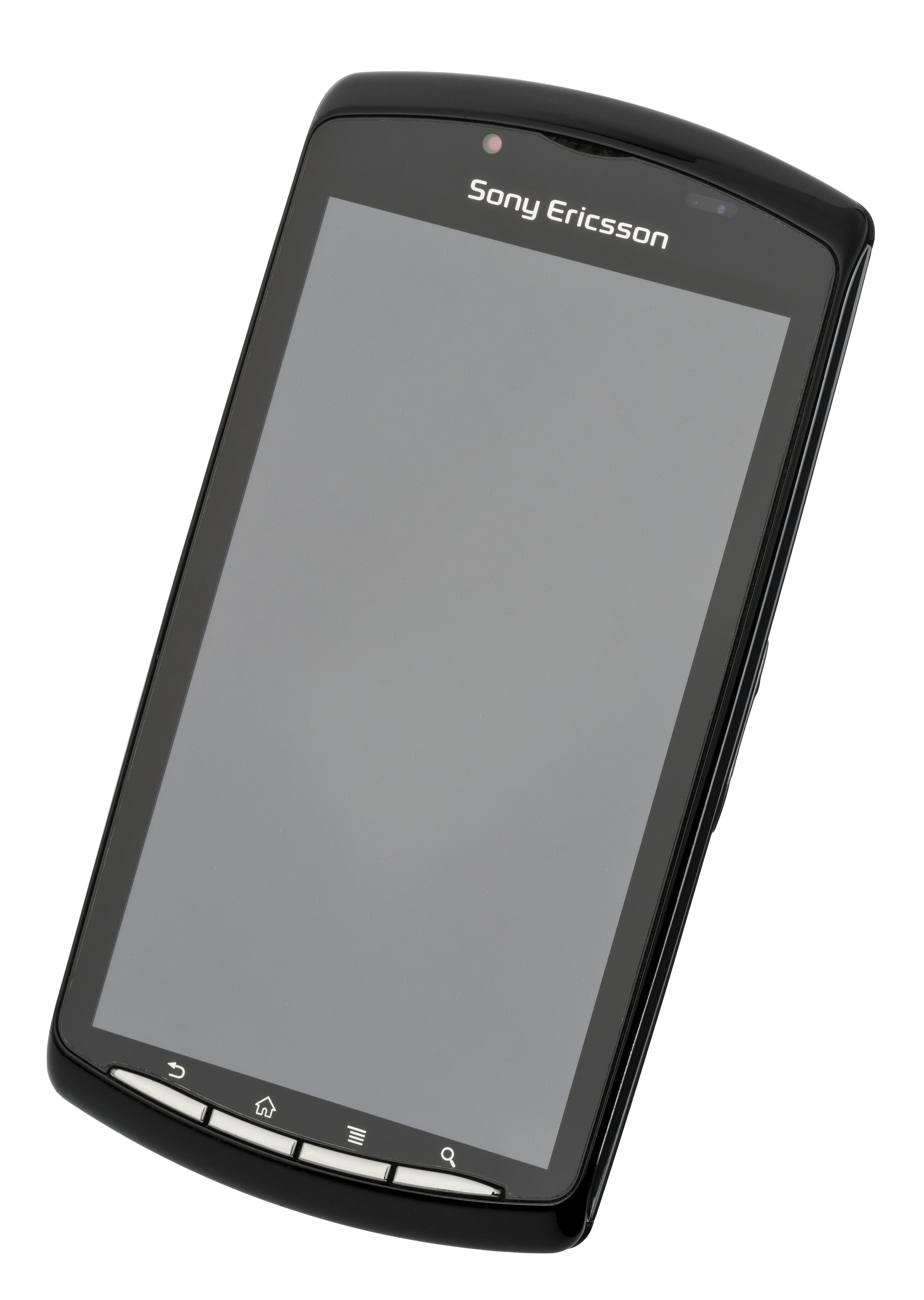 The Sony Xperia Play phone, shown closed. Released in 2011, this Android phone featured a slide-out section with traditional game controls, similar to a Sony PSP Go. It was able to play PlayStation Mobile games, which includes ports of original PlayStation games, PSP games and some original titles.